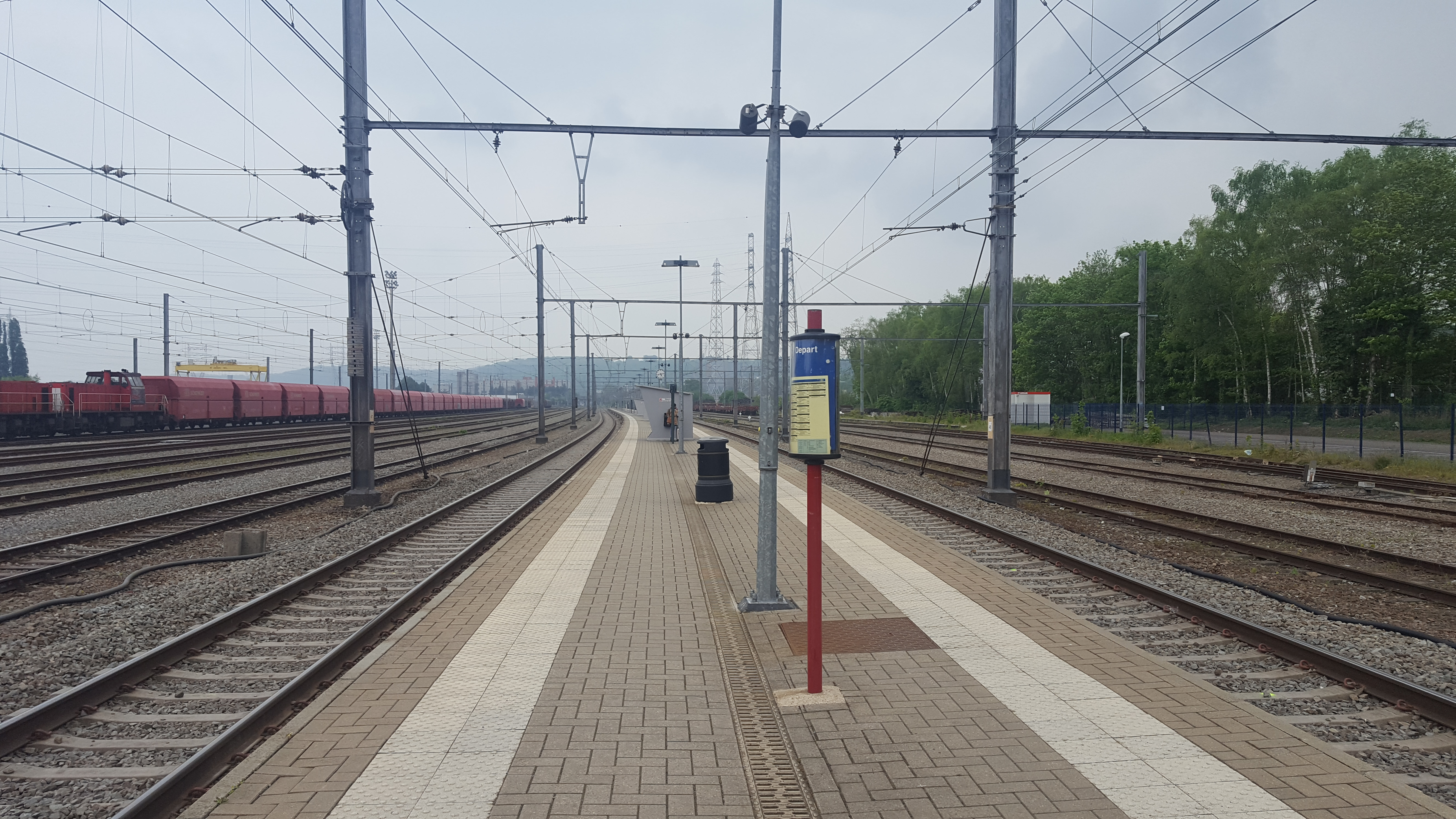 Bressoux train station, Belgium